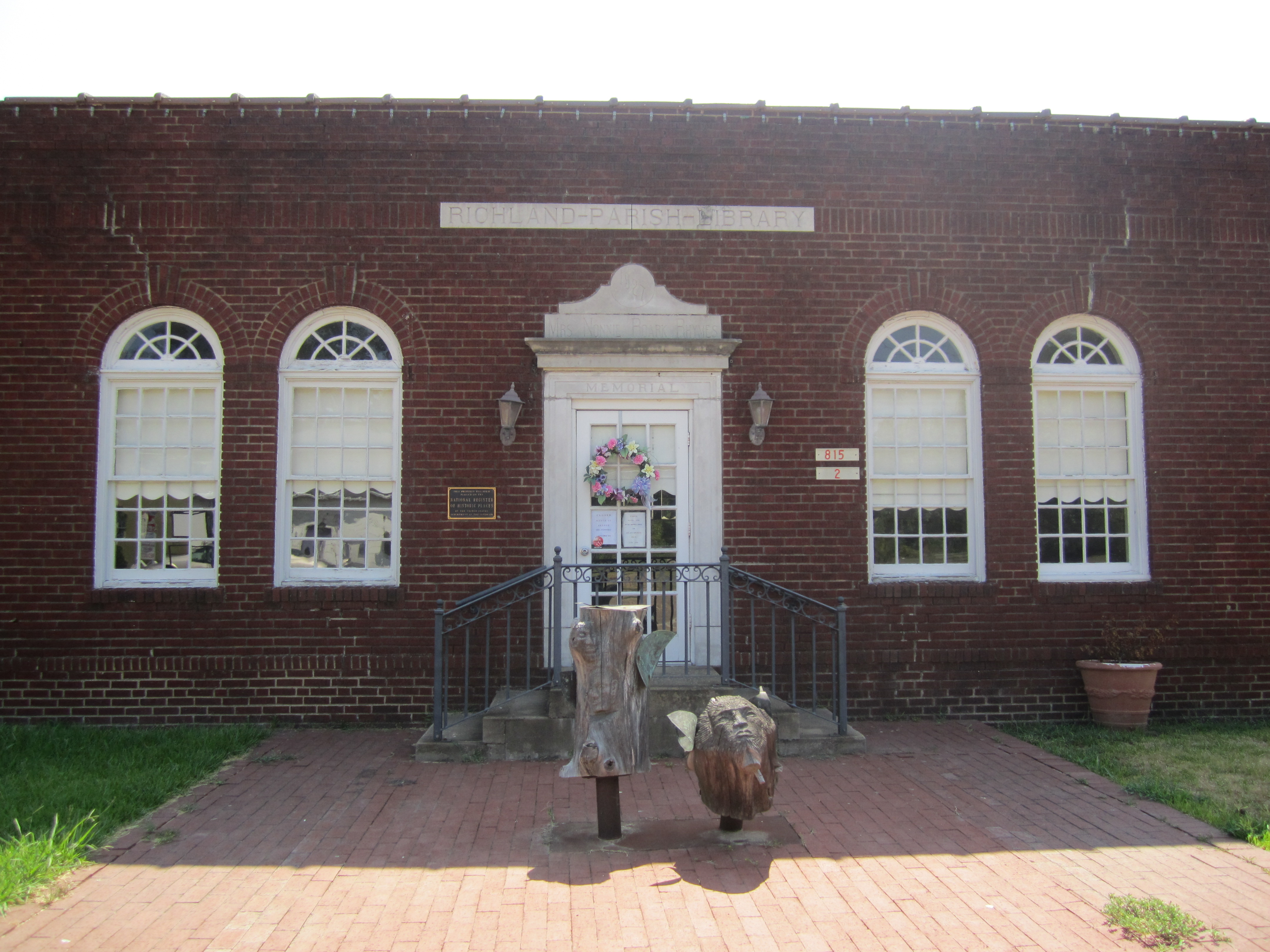 I took photo with Canon camera in Rayville, LA.